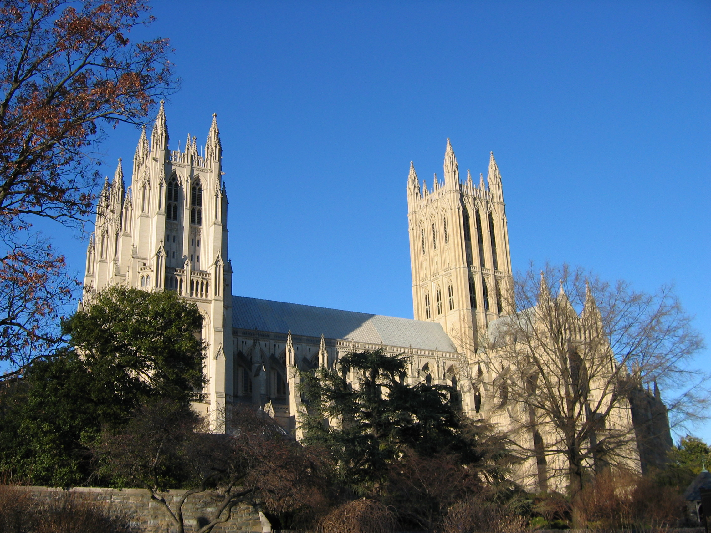 I took this myself, it is colorful and I like it a lot. I am placing in in the public domain because I do not wish to infringe on others rights to use it. Category:Images of Washington, D.C.